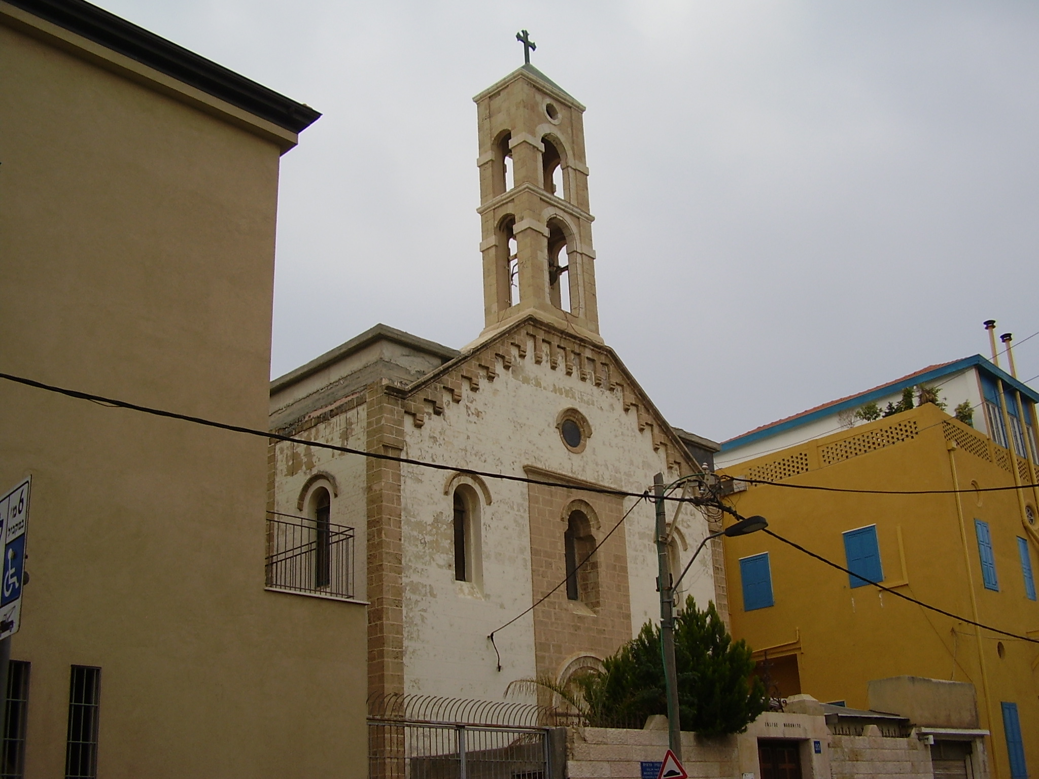 maronite church in jaffa